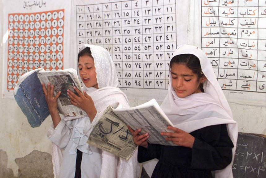 Young Afghan girls reading literature